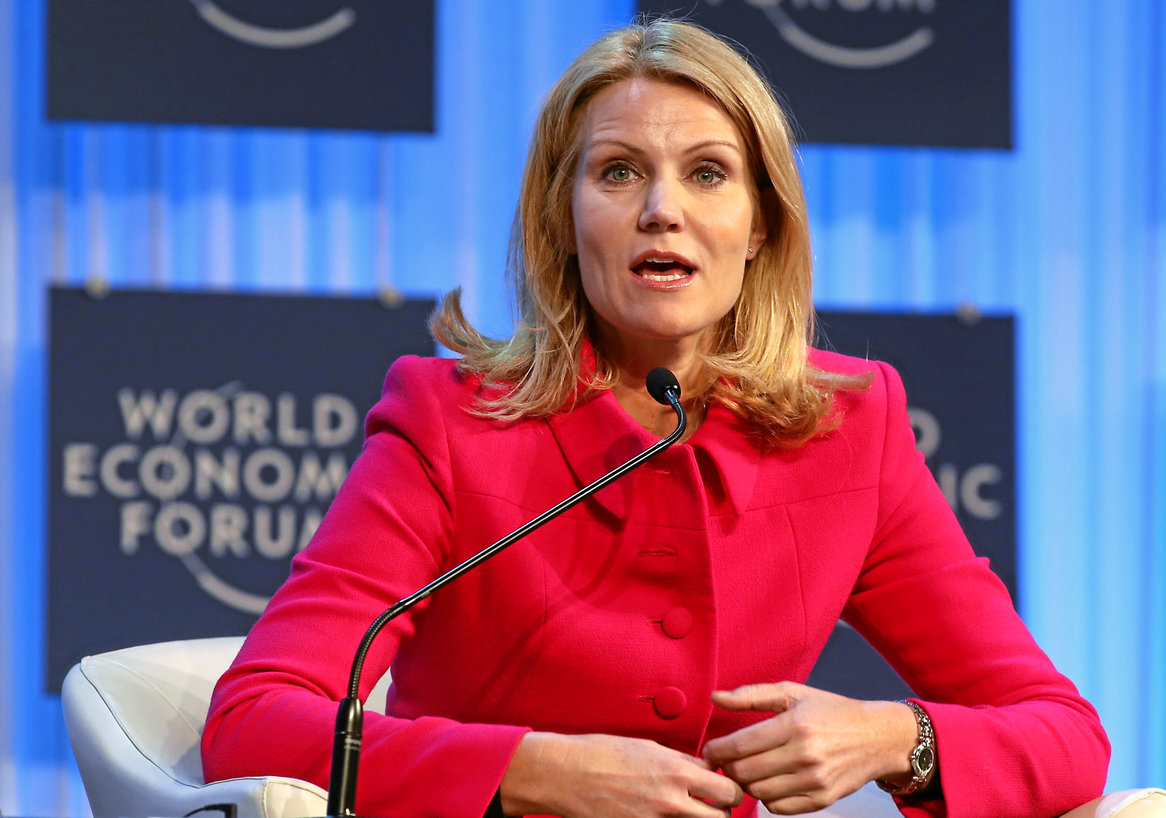 DAVOS/SWITZERLAND, 24JAN13 - Helle Thorning-Schmidt, Prime Minister of Denmark speaks during the session 'Eurozone Crisis - Building Resilient Institutions' at the Annual Meeting 2013 of the World Economic Forum in Davos, Switzerland, January 24, 2013.. . Copyright by World Economic Forum. . Monika Flueckiger